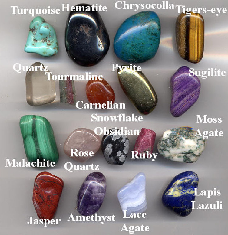 A selection of gem pebbles made by tumbling rough stones with abrasive in a rotating drum. The picture was made without use of a camera, simply by arranging the pebbles on the glass of my flat bed scanner. Photographed by Adrian Pingstone in February 2003 and released to the public domain. Note that the label "Lace Agate" should have been "Blue Lace Agate" (Adrian Pingstone's mistake). An unlabelled version exists (for labeling in other languages): Gem.pebbles.800pix.jpg. Labels First row: turquoise, hematite, chrysocolla, tiger's-eye Second row: quartz, tourmaline, carnelian, pyrite, sugilite Third row: malachite, rose quartz, snowflake obsidian, ruby, moss agate Forth row: jasper, amethyst, blue lace agate, lapis lazuli